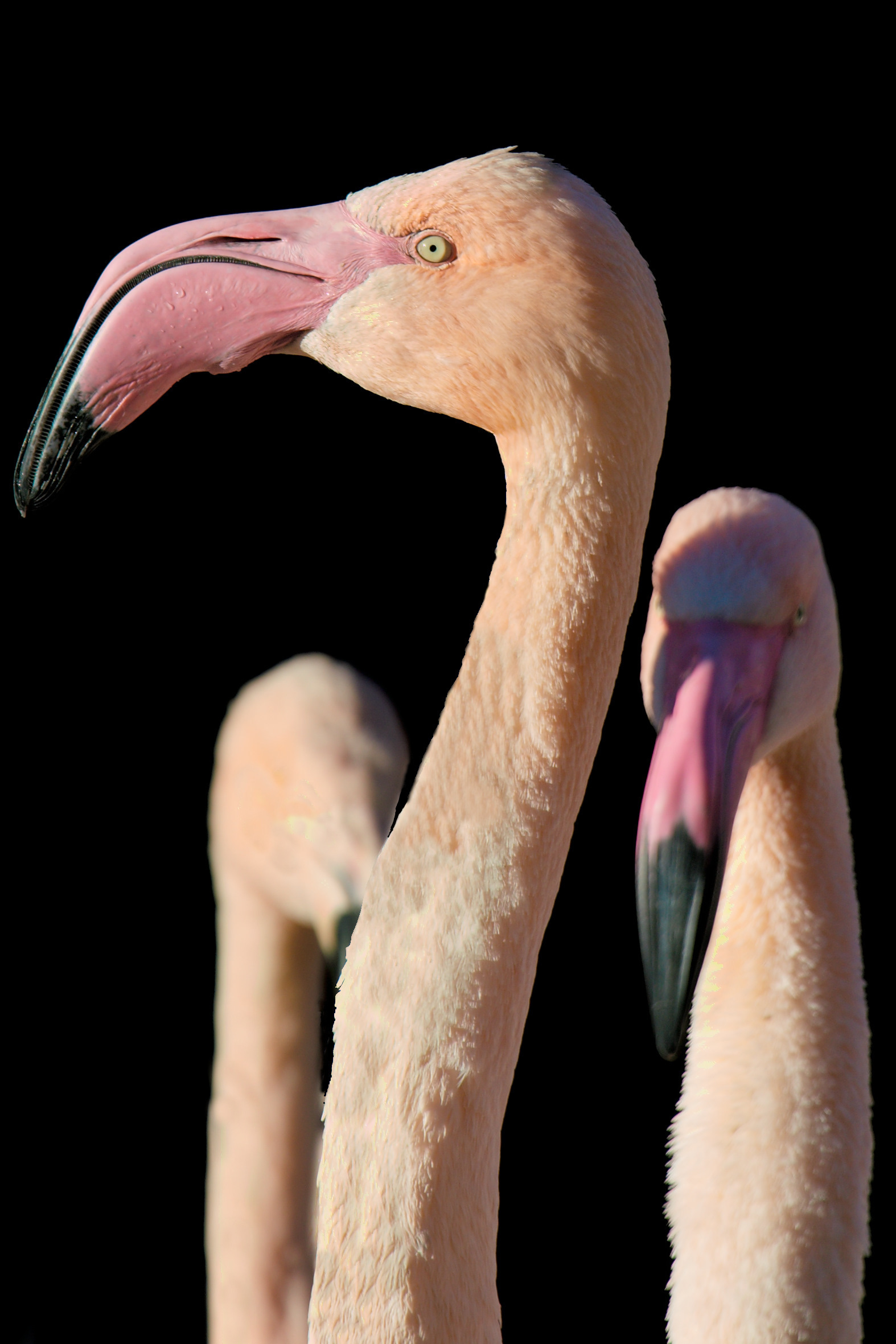 Phoenicopterus roseus head. Photographed in the morning sun, so the background was black in the original picture.